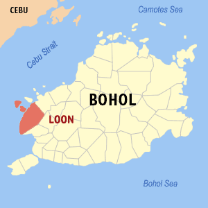 Map of Bohol showing the location of Loon